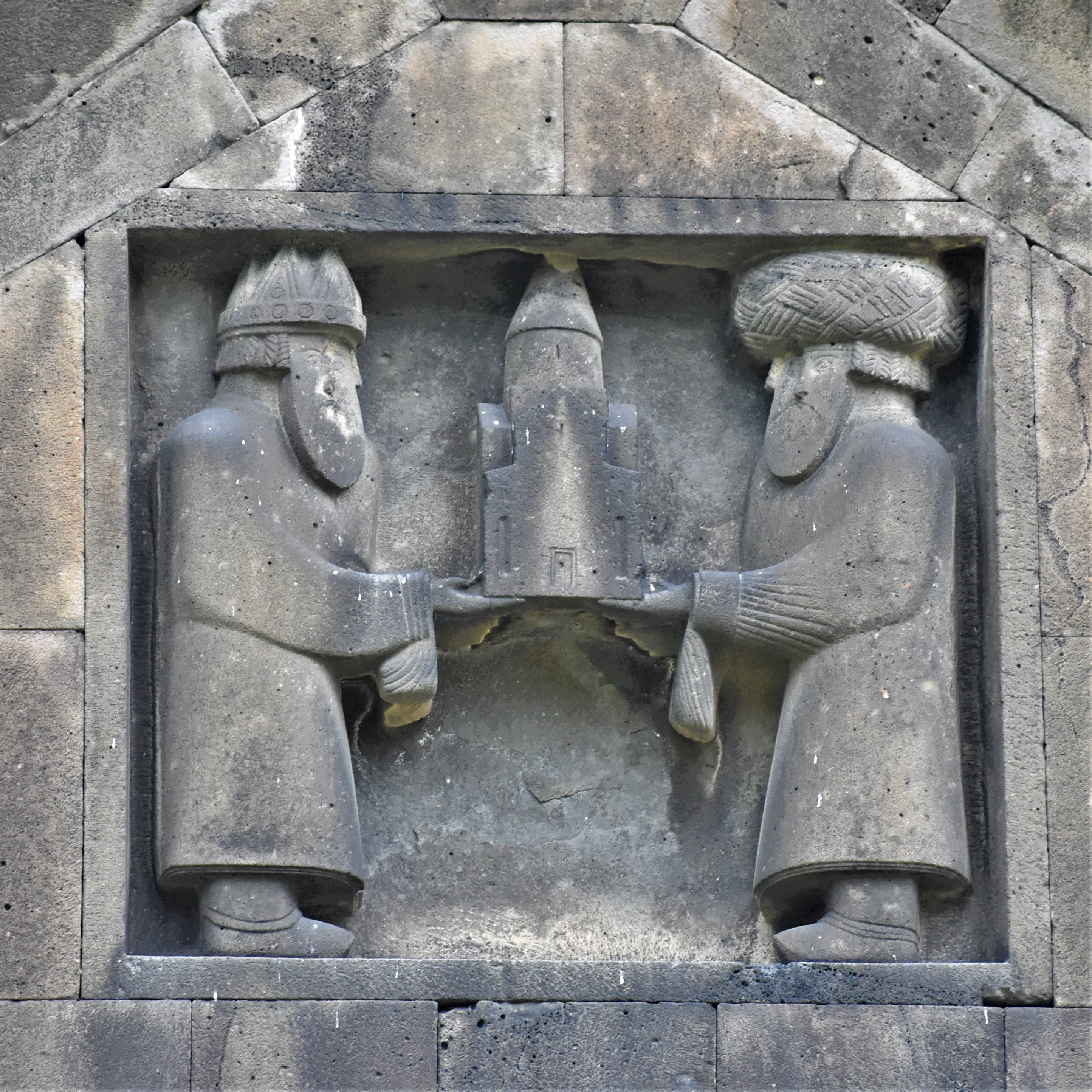 Haghpat monastery bas relief of Smbat and Kurike